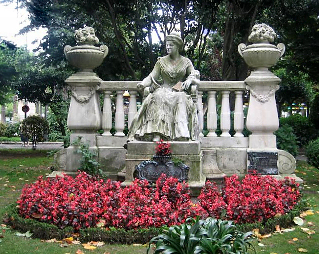 Image from italian WP. Retouched in german graphic lab.